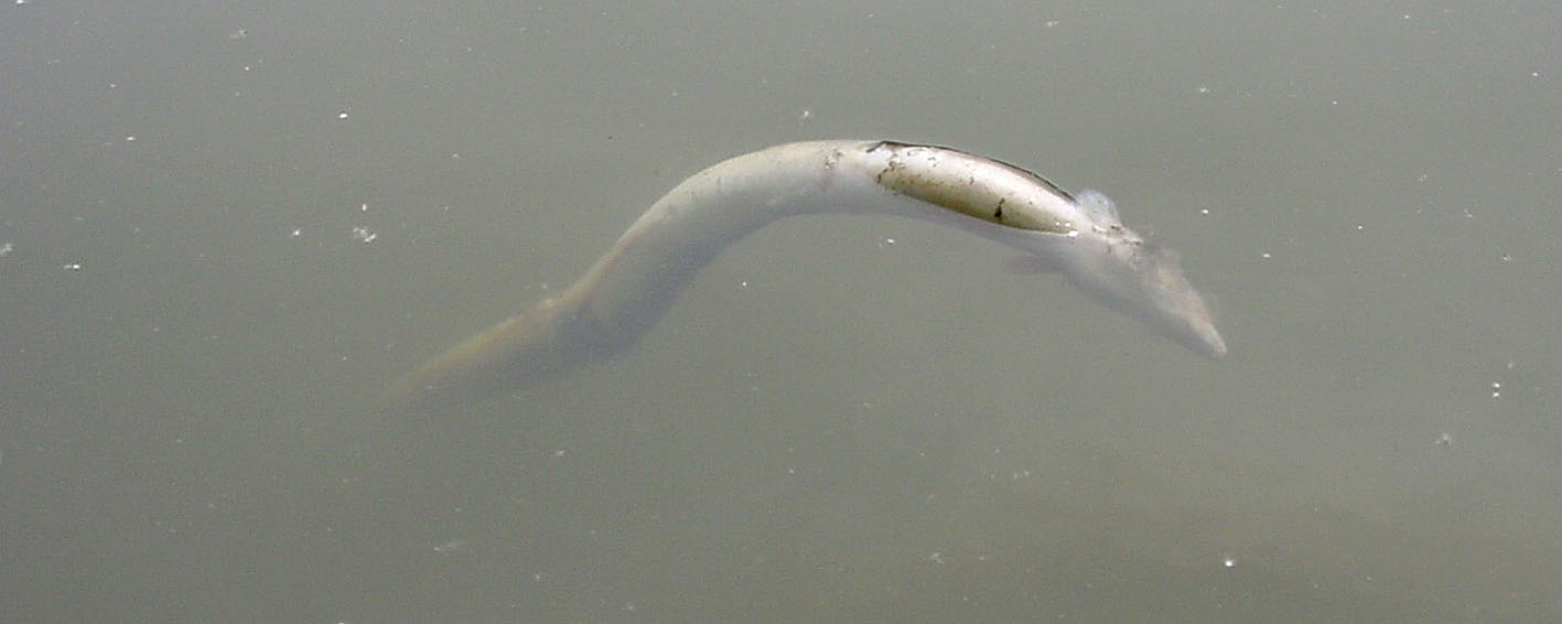 dead anguilla in the river deule near Lille (north of France)